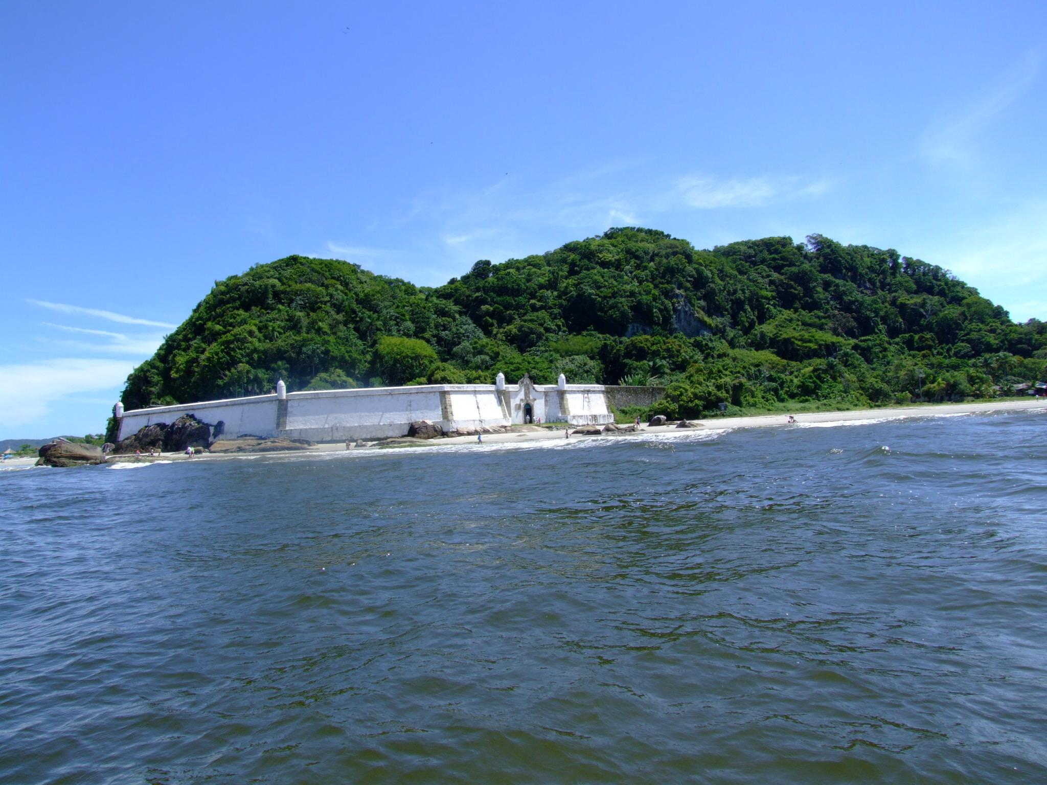 Fortress of Our Lady of the Pleasures (Honey Island)